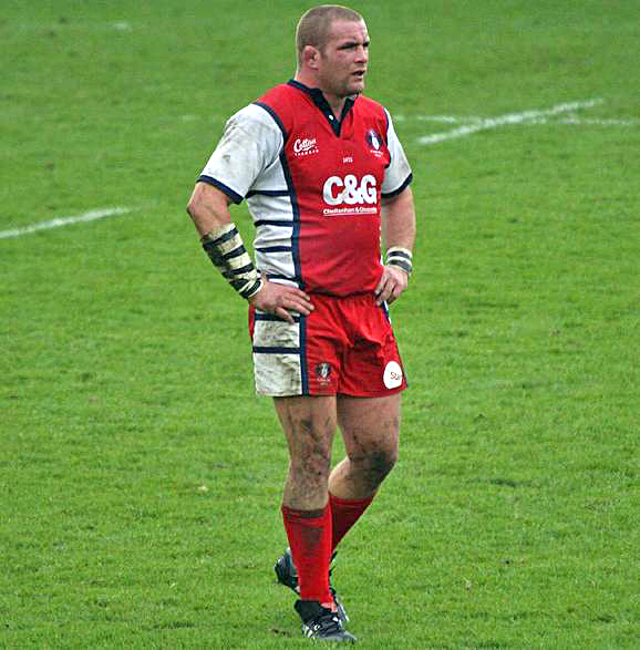 Phil Vickery. Gloucester v Saracens. 26 November 2005